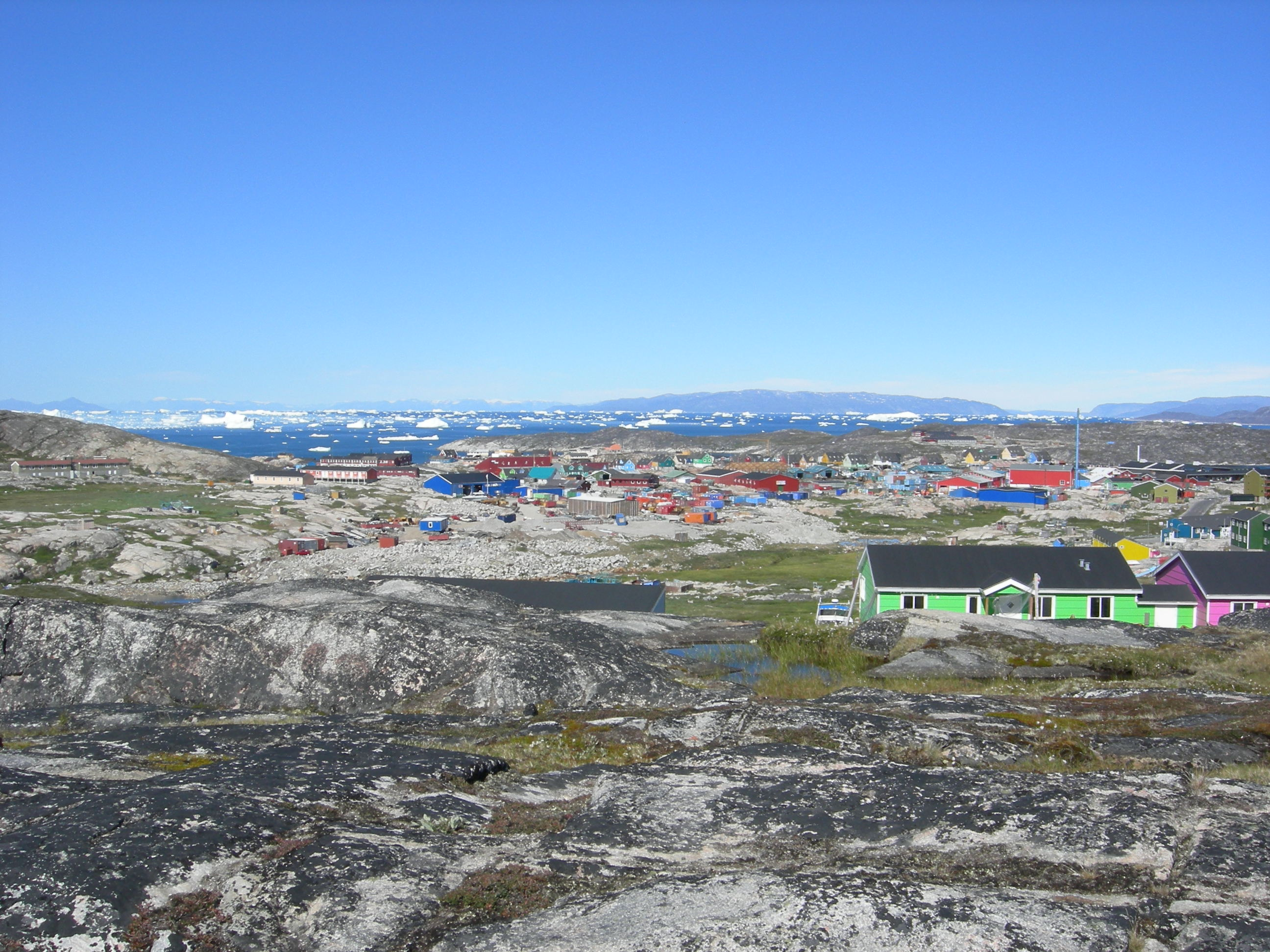 The Disko Bay as seen from Ilulissat